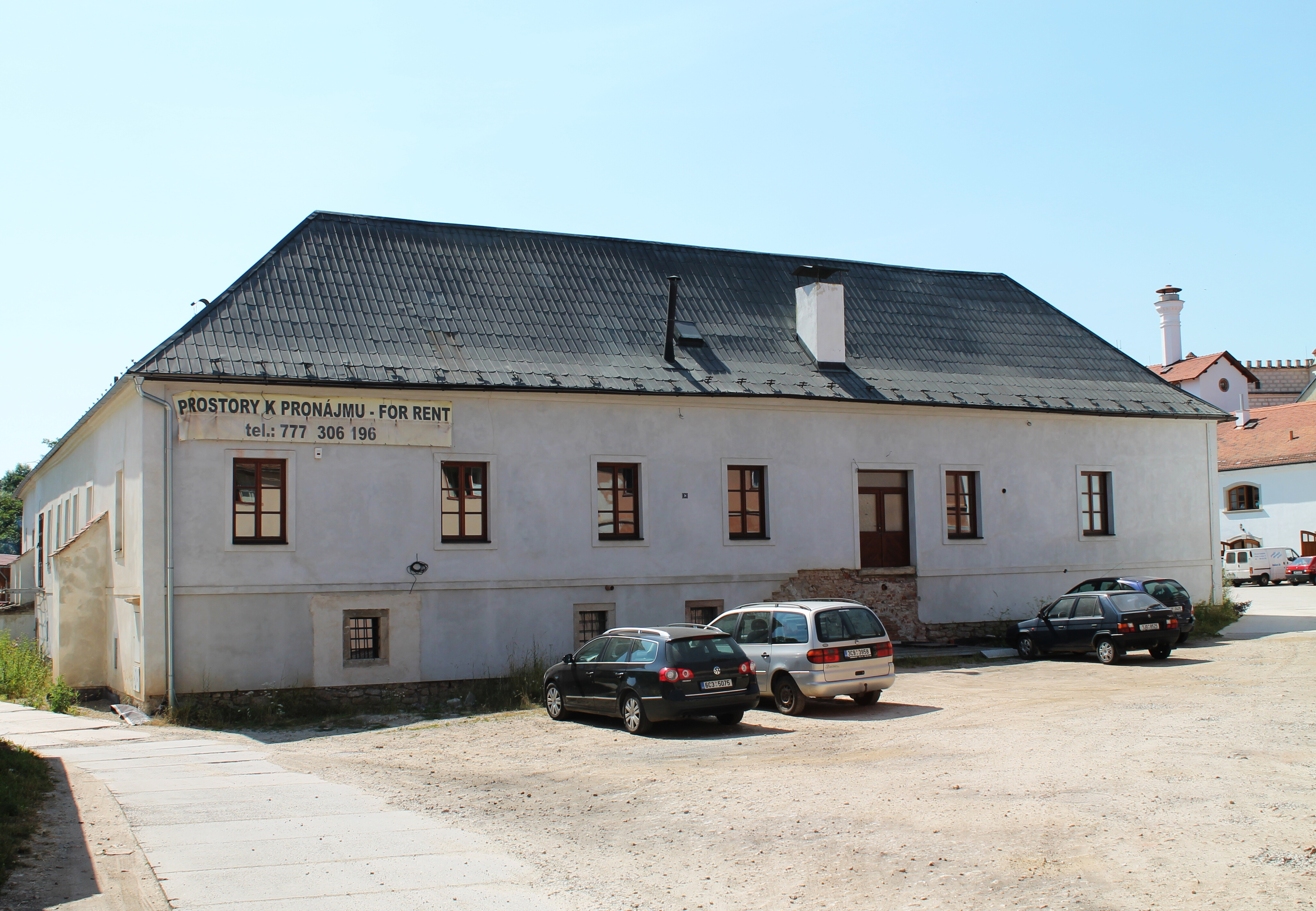 Fortress, Dačice, Jindřichův Hradec District, Czech Republic - OpenStreetMap (Info)